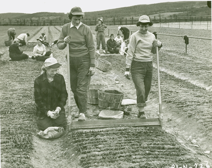 Willow cuttings planting operation showing trenching blade being used to open trench at the Big Flatts Nursery, Chemung County, New York. 1952